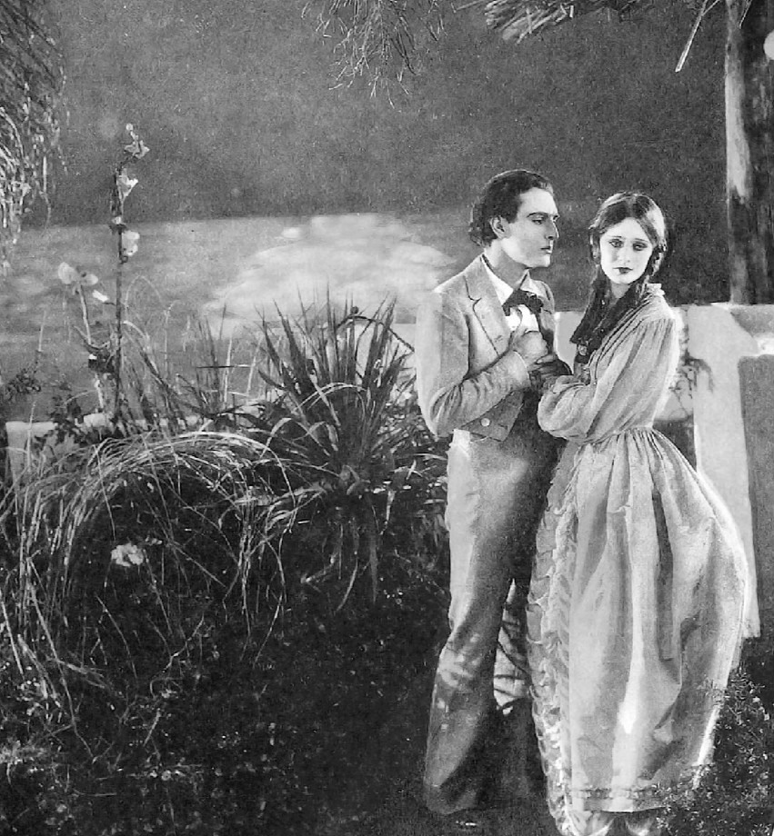 Lobby card for the 1926 film The Sea Beast. The still is derived from this PD item: .